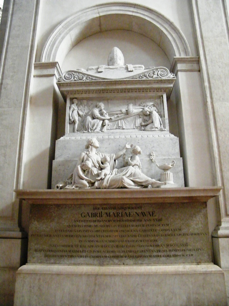 Gabrio Maria Nava. Grave in Duomo Nuovo, Brescia.